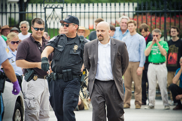 WASHINGTON, DC-- Phil Radford, Executive Director of Greenpeace USA, was arrested in front of the White House, in an effort to urge President Obama to reject the Keystone pipeline. He was arrested along with 139 others who also engaged in civil disobedience on August 29th, 2011. From August 20th-September 3rd, hundreds of people are sitting-in at the White House to tell President Obama to reject the Keystone XL tar sands pipeline. Visit for more details.